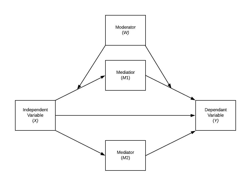 A complex parallel multiple mediator model that includes moderation of effects to and from M1 by a common moderator W.